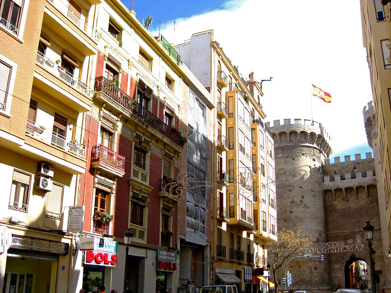 Carrer de Quart, Valencia, Spain. Carrer de Quart a València, País Valencià.